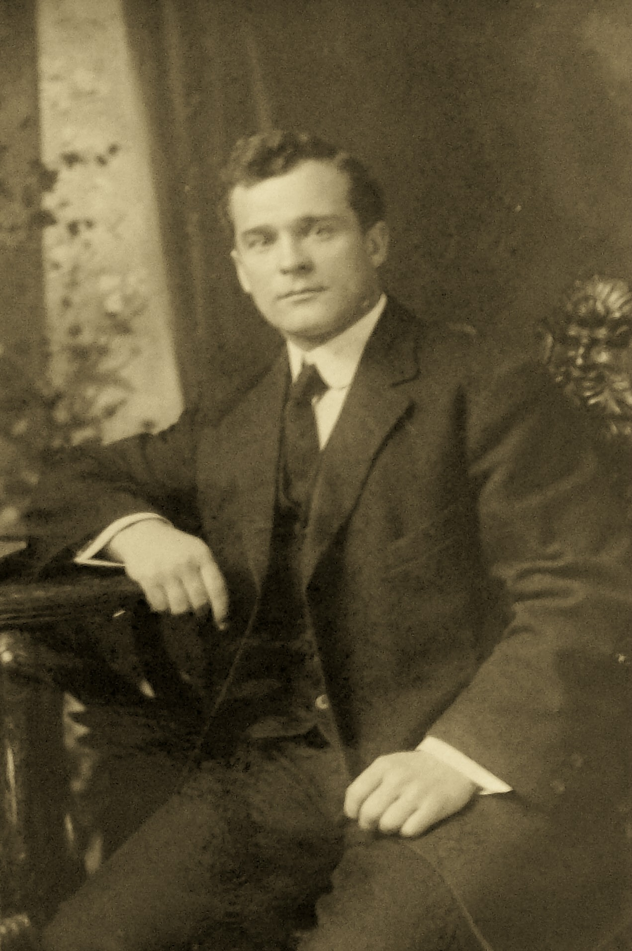 A photo of Harry Webb Farrington found in the Annie T. George Library of the Darlington United Methodist Church, in Darlington, Maryland.